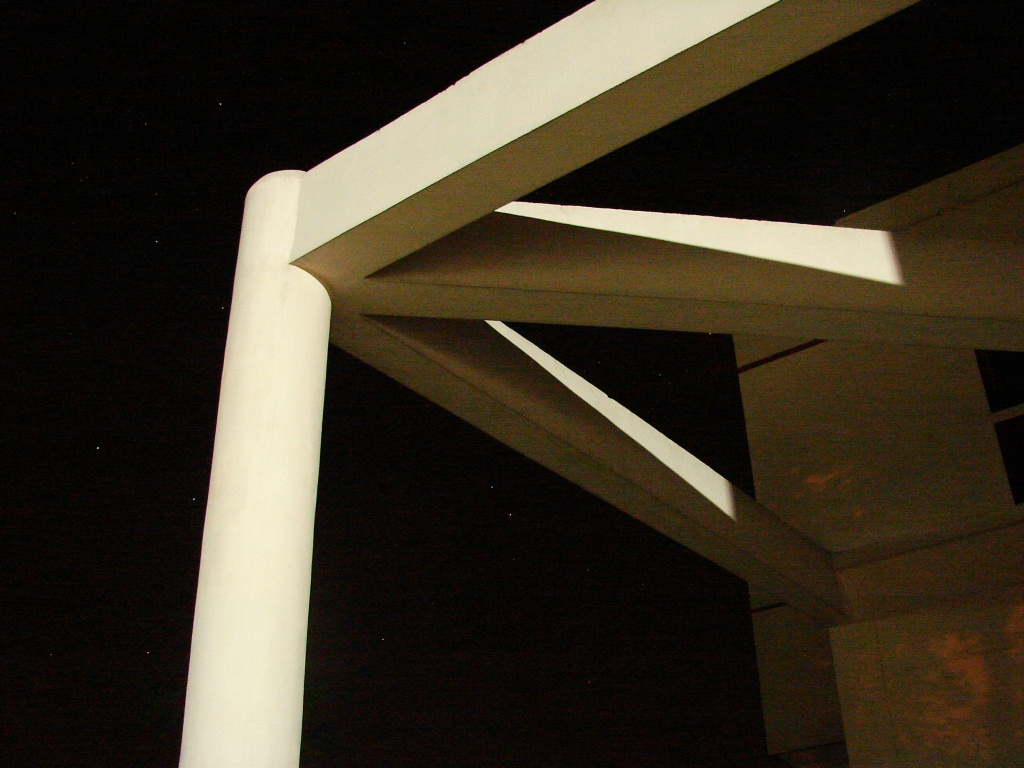 column outside SMVDU Architecture school